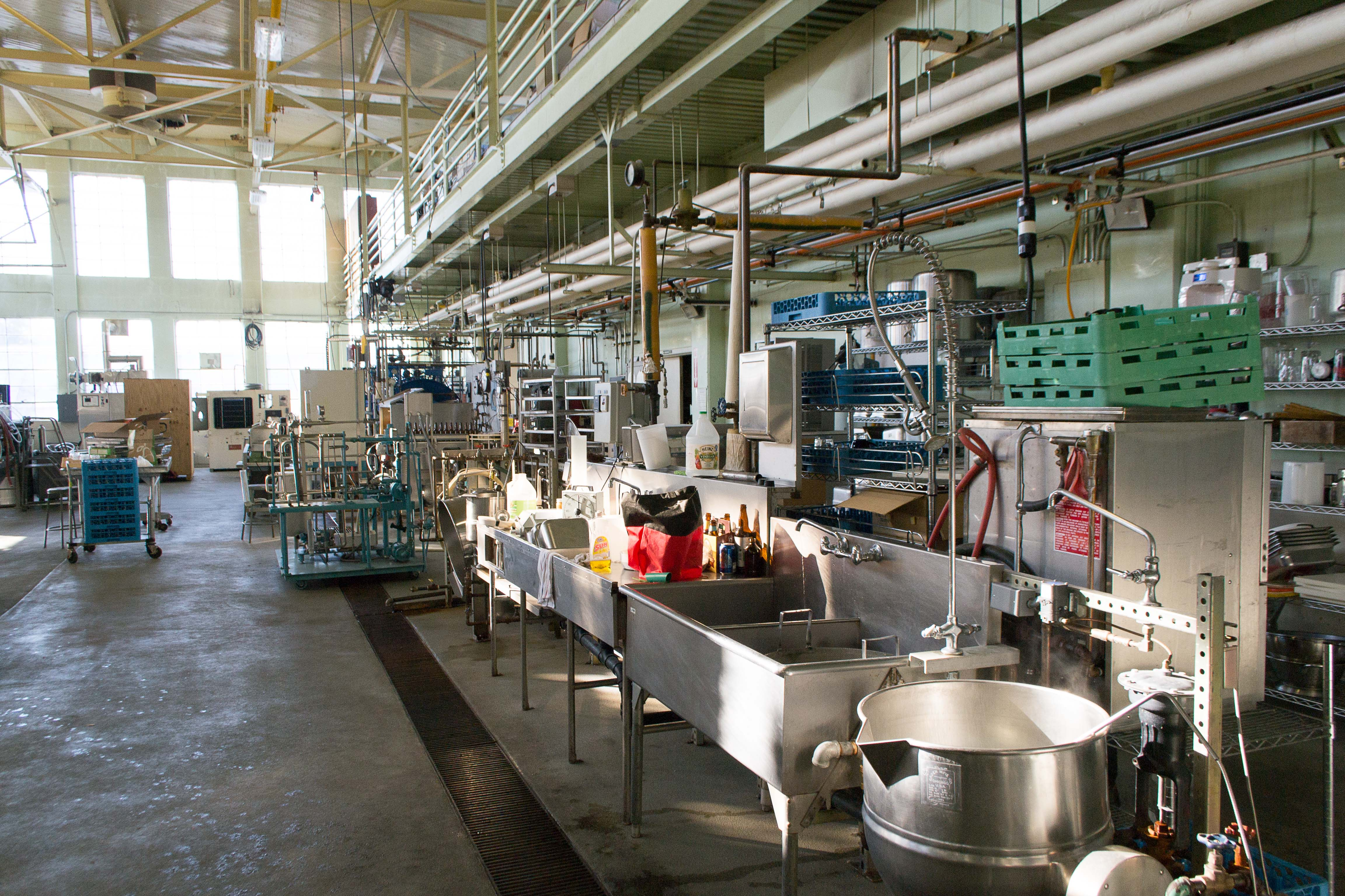 A food science laboratory at Wiegand Hall